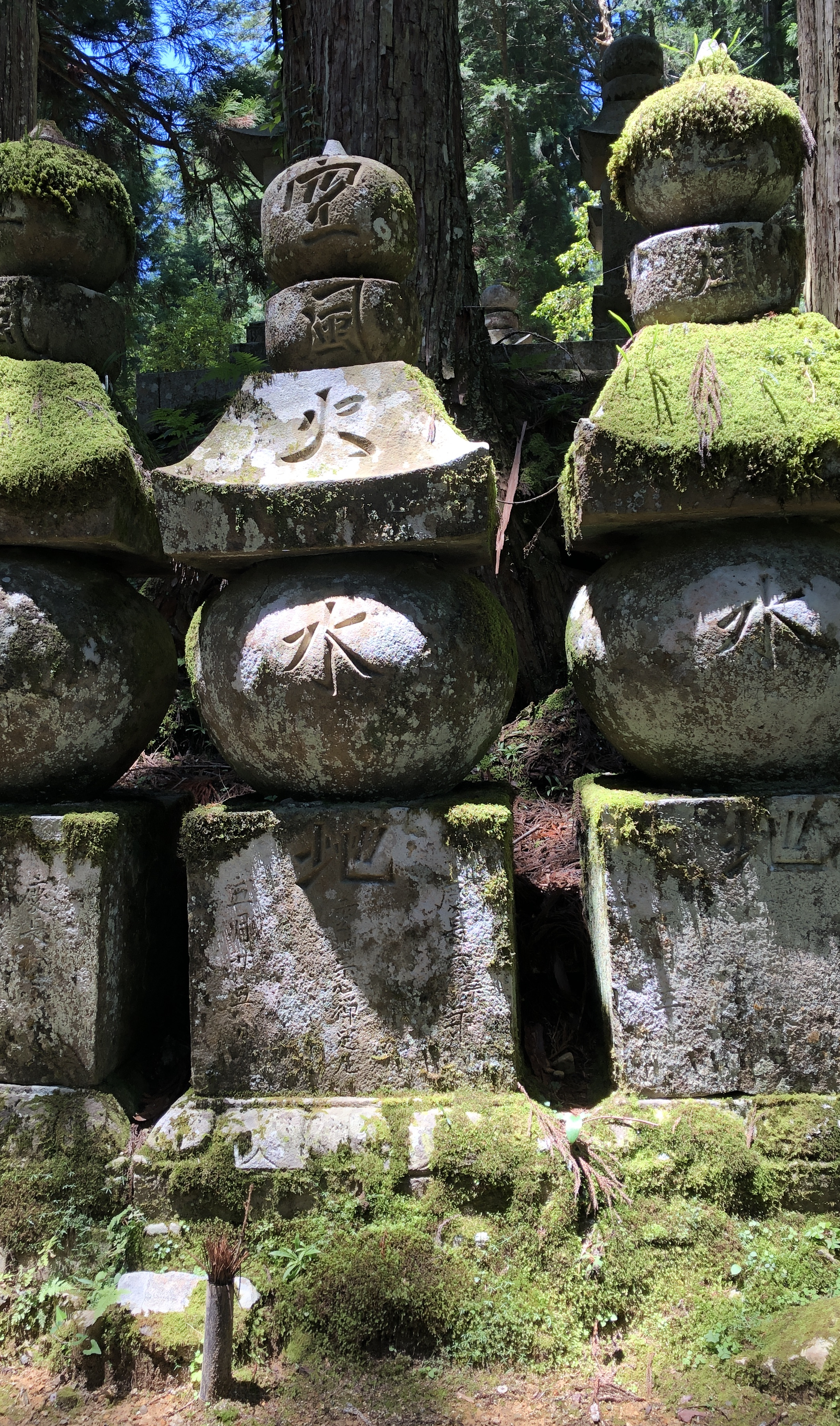 Gorintō with the Chinese characters for the five Elements (Koyasan, Japan)